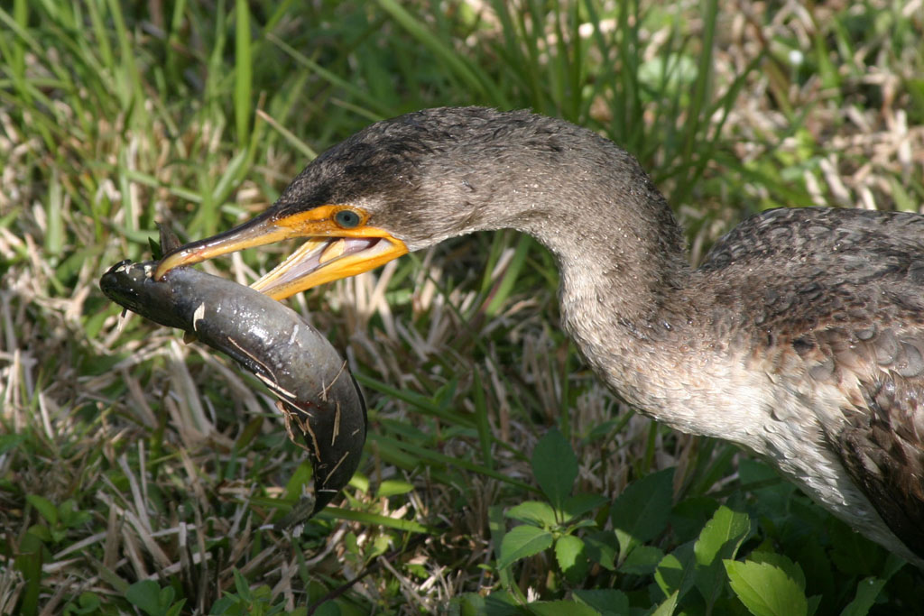 Double-crested Cormorant, Phalacrocorax auritus, juvenile with prey (walking catfish, Clarias batrachus). Location: Anhinga Trail, Eerglades National Park, Florida, United States